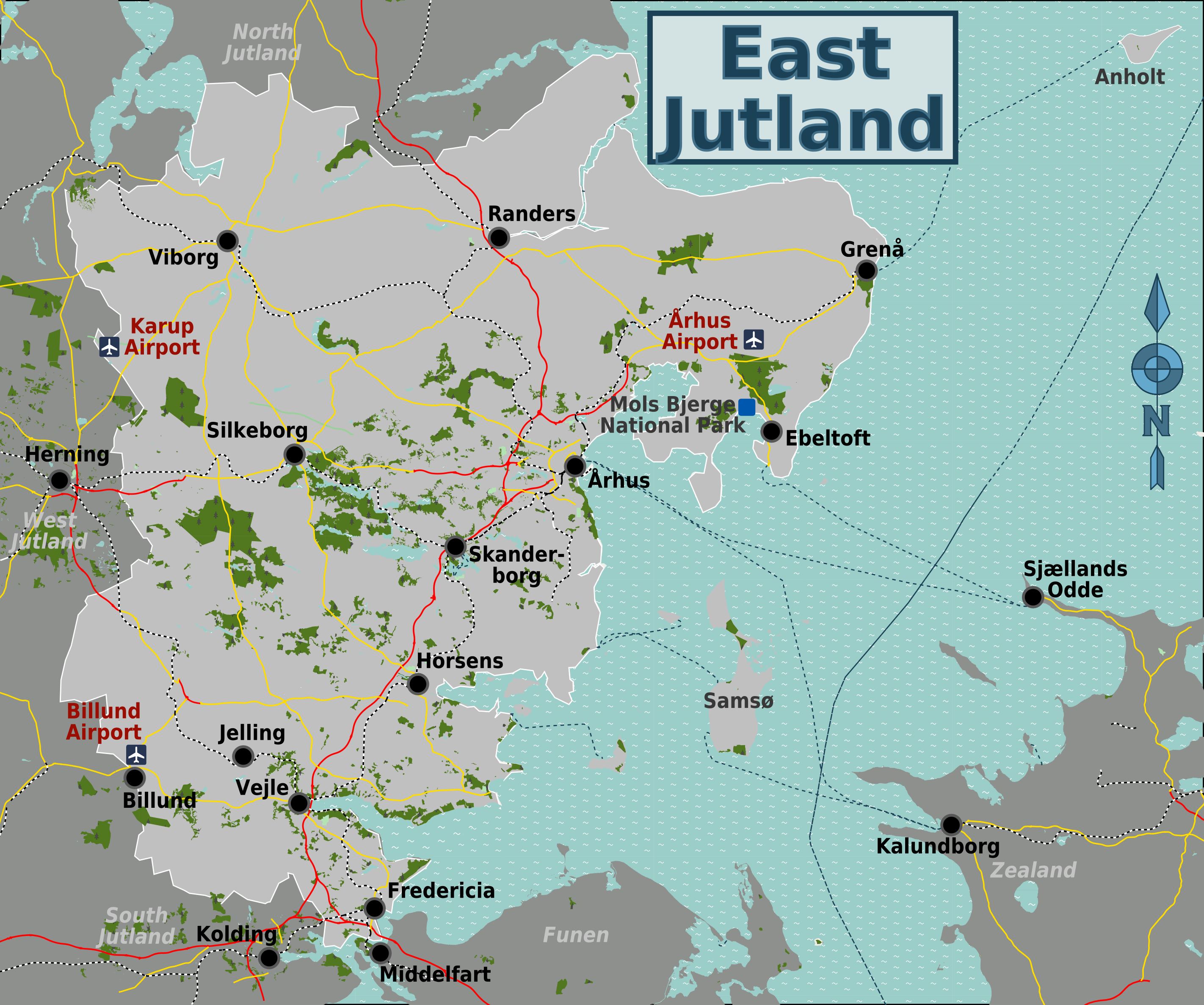 Regional map of East Jutland. Regional map of East Jutland SVG version: :Image:EastJutland.svg, Jutland Map of: Jutland¤